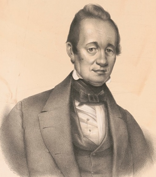 Henry A. Muhlenberg (US Congressman from Pennsylvania)